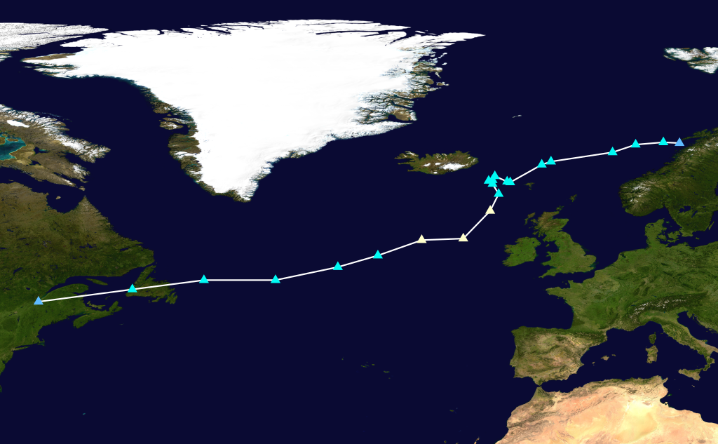 Track map of Storm Brendan of the 2019-20 European windstorm season. The points show the location of the storm at 6-hour intervals. The colour represents the storm's maximum sustained wind speeds as classified in the Saffir–Simpson scale (see below), and the shape of the data points represent the nature of the storm, according to the legend below. Saffir–Simpson scale Tropical depression≤38 mph≤62 km/h Category 3111–129 mph178–208 km/h Tropical storm39–73 mph63–118 km/h Category 4130–156 mph209–251 km/h Category 174–95 mph119–153 km/h Category 5≥157 mph≥252 km/h Category 296–110 mph154–177 km/h Unknown Storm type Tropical cyclone Subtropical cyclone Extratropical cyclone / Remnant low / Tropical disturbance / Monsoon depression